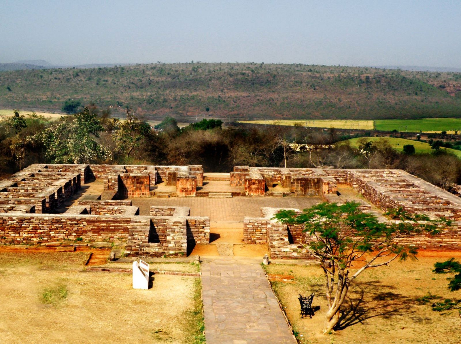 A Buddhist monastery at Sanchi.